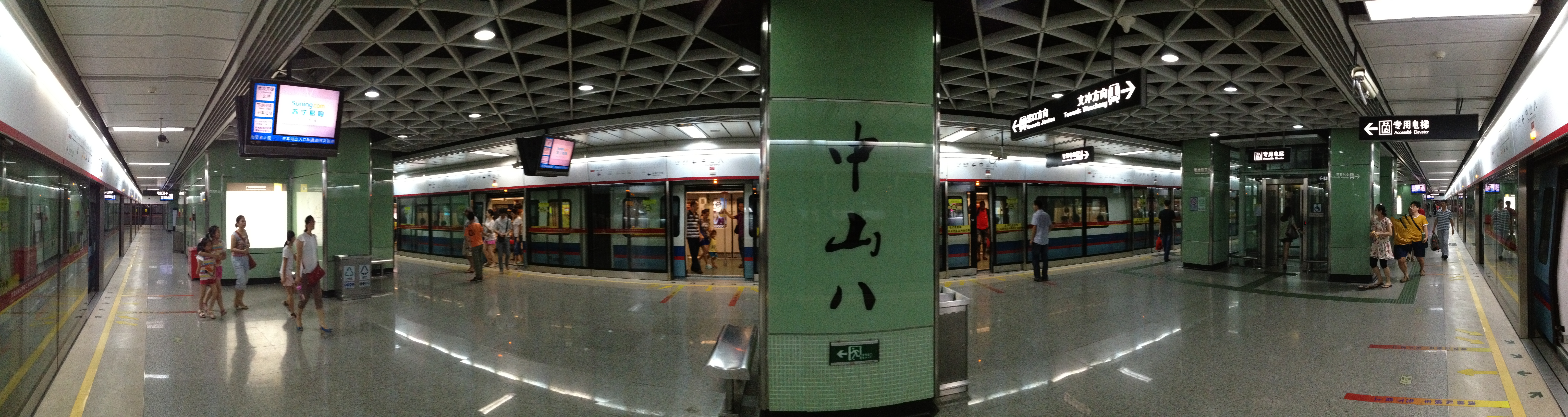 Full Sight for Zhongshanba Station in Guangzhou Metro.